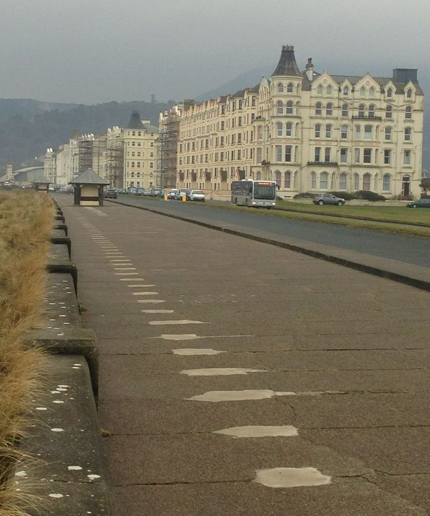 Mooragh Promenade, facing South, in Ramsey, Isle of Man. In the foreground are the remnants of the barbed wire fence posts that were erected around this area, used as an internment camp during World War II.